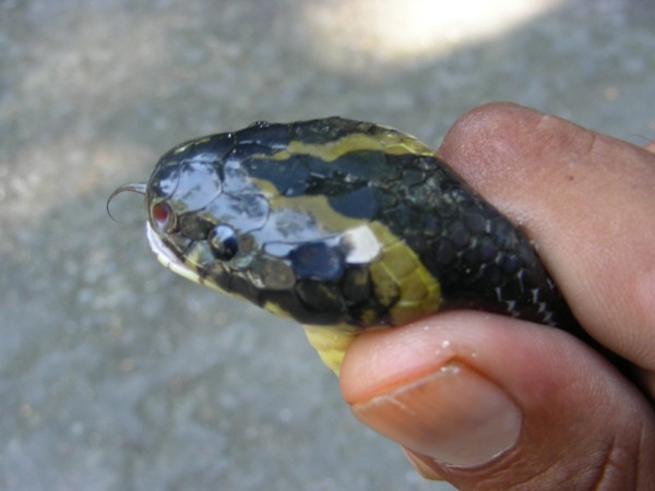 Banded Krait Bungarus fasciatus Daudin 1803 Head of banded krait. Photo of Banded Krait captured in Binnaguri, North Bengal, India on 19 Sep 2006.